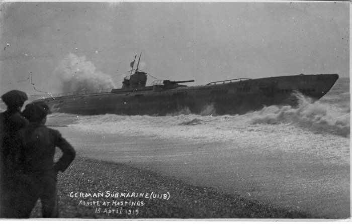 U-118 newly arrived at Hastings SM U 118 unmittelbar nach der Strandung